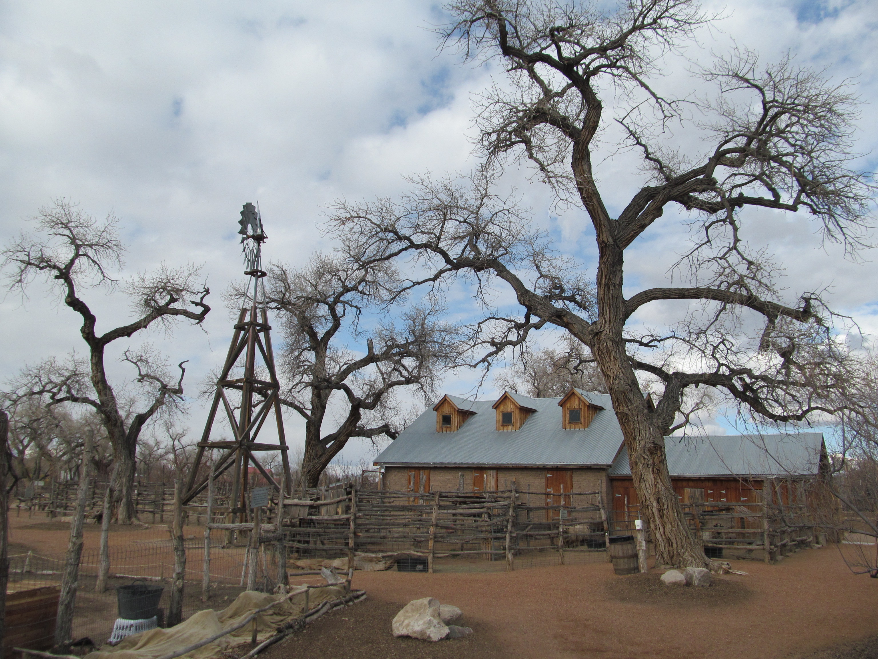 Barn at the Heritage Farm, Rio Grande Botanic Garden, Albuquerque New Mexico